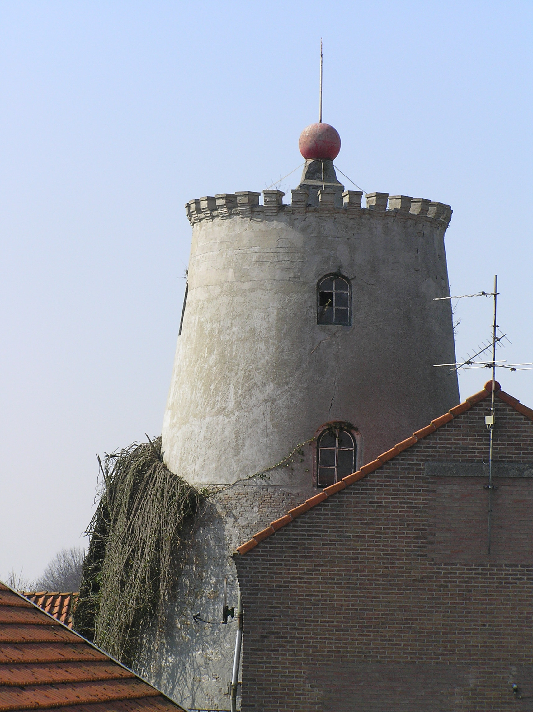 Remains of windmill De Haas in Oud-Sabbinge